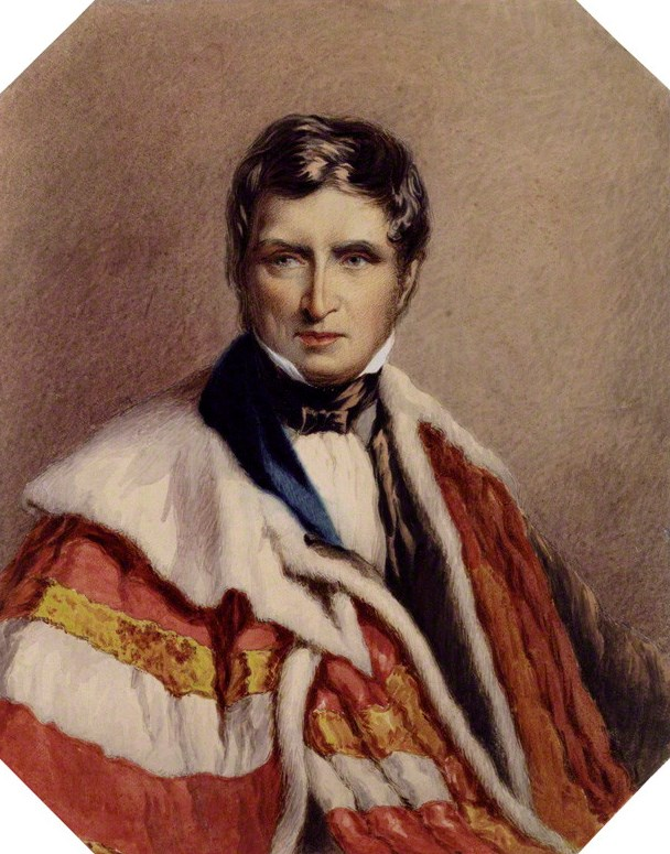 Portrait of John Copley, 1st Baron Lyndhurst, Lord Chancellor